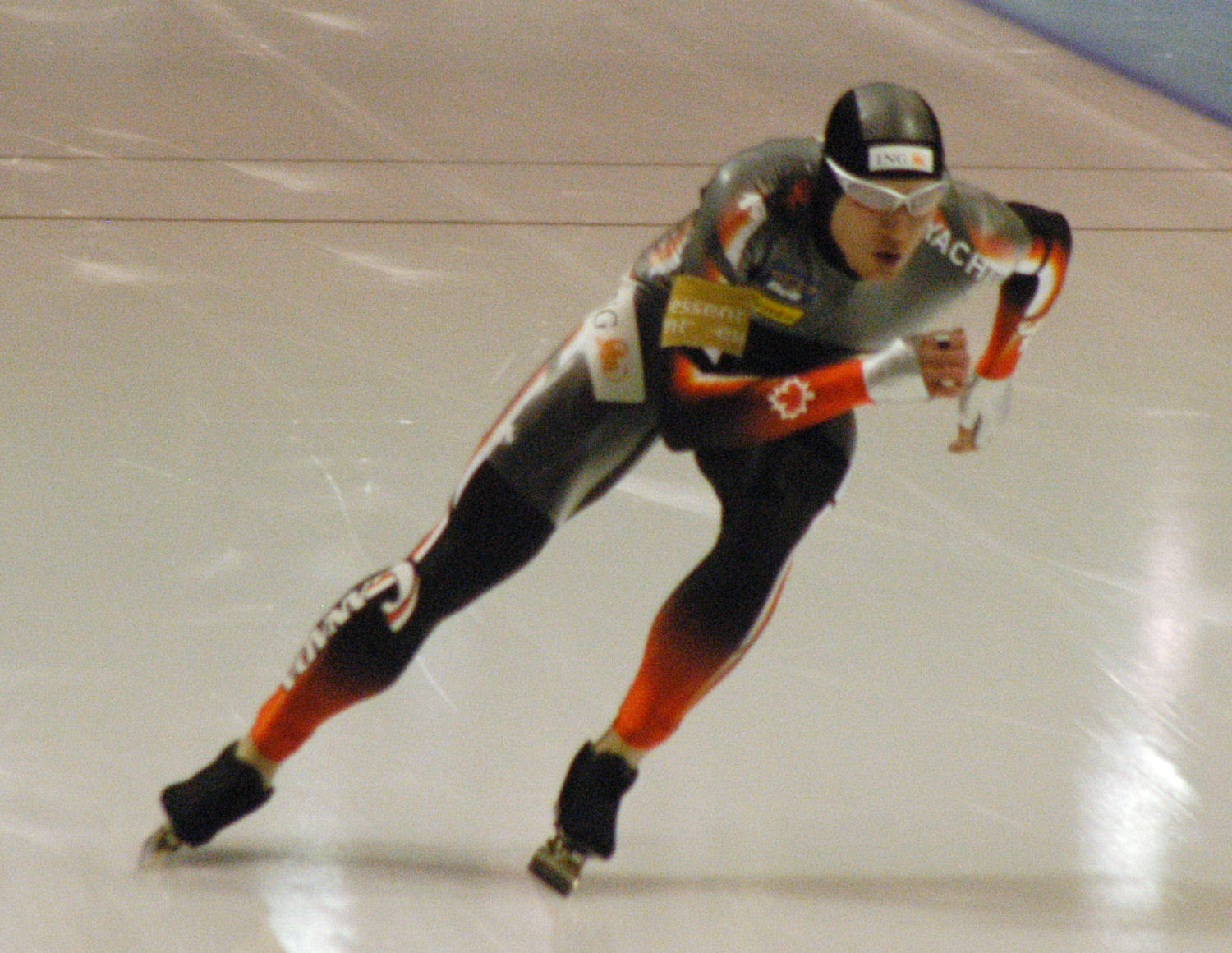 Jeremy Wotherspoon (CAN) at a world cup speedskating in Heerenveen, the Netherlands.